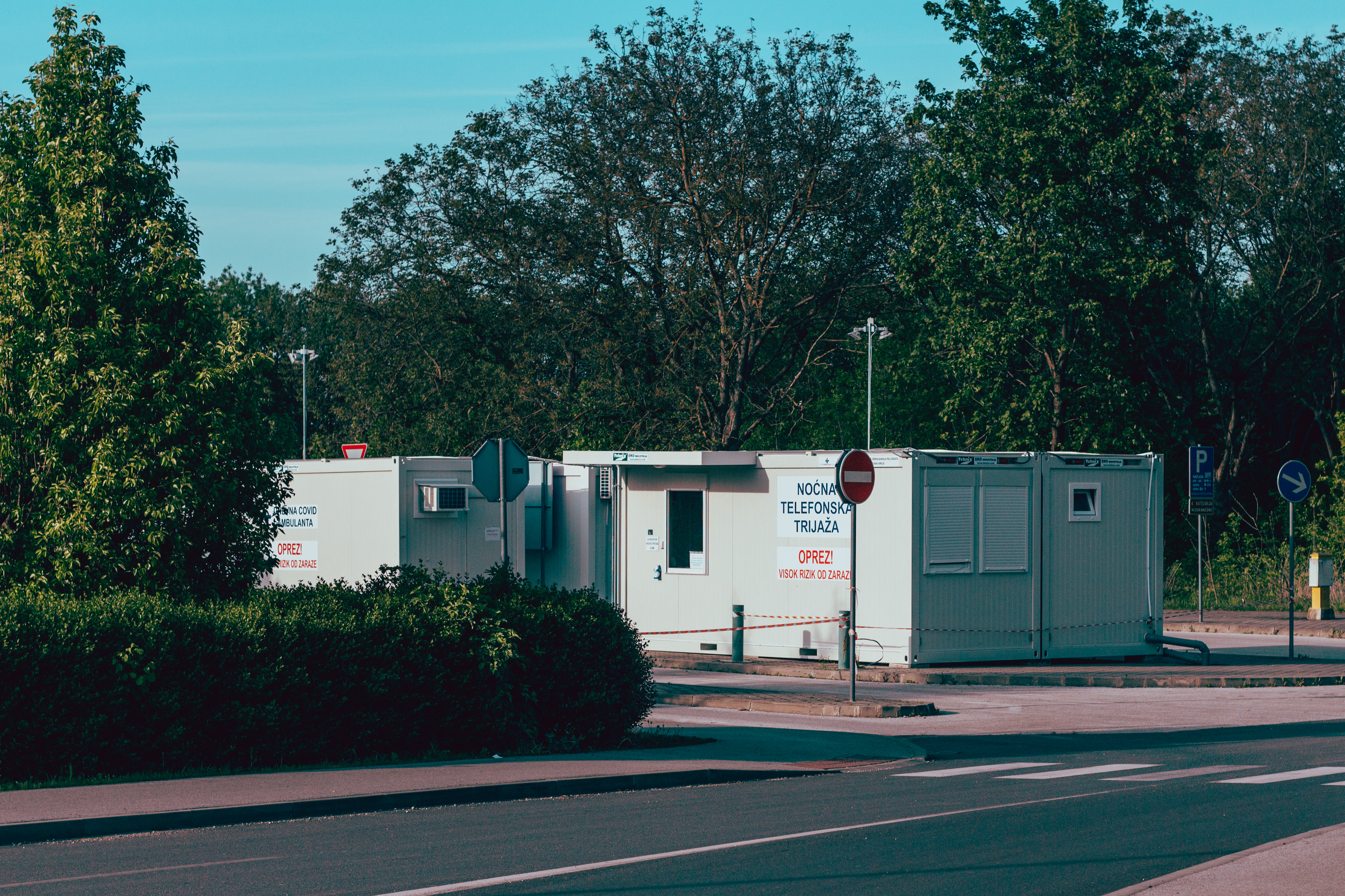 Tents positioned at hospital parking in order to test patients suspected of COVID-19 before entering the hospital.